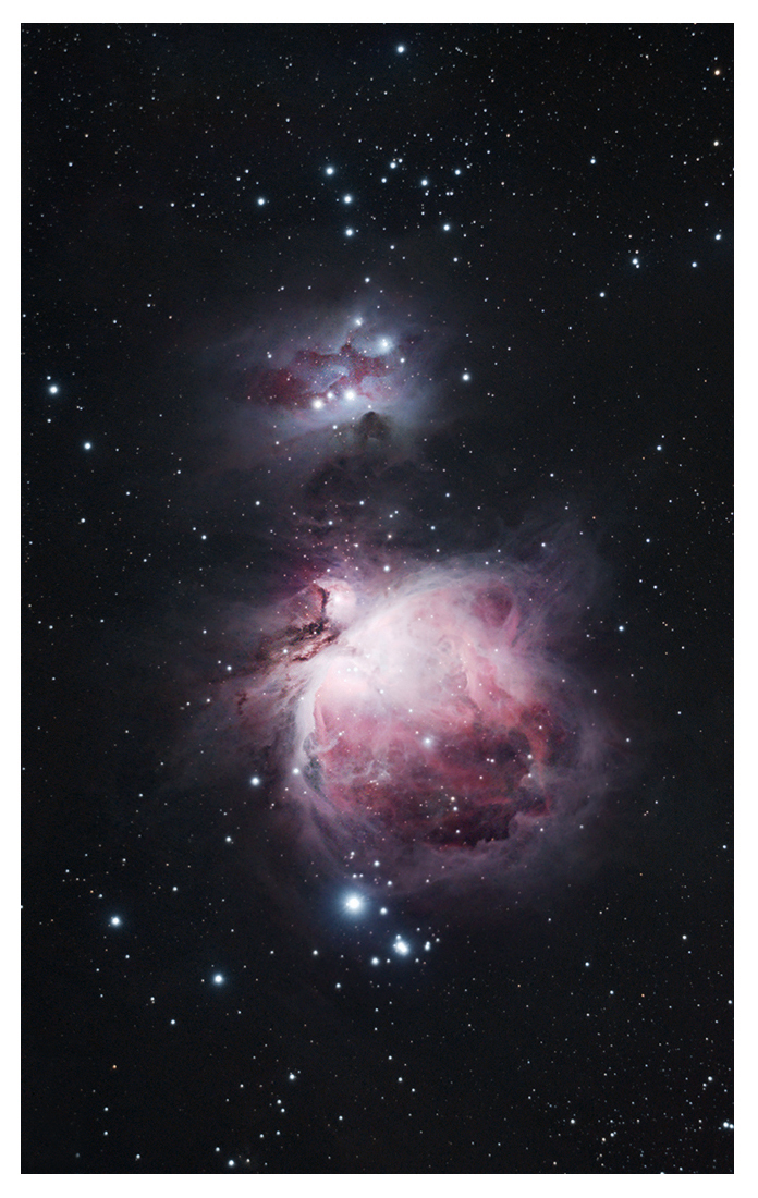 Amateur DSLR Astrophotography Image of the Orion Nebula and Running Man Nebula. Photo captured with a Canon Rebel Xsi and an Explore Scientific ED80 telescope. Complete Photo Details